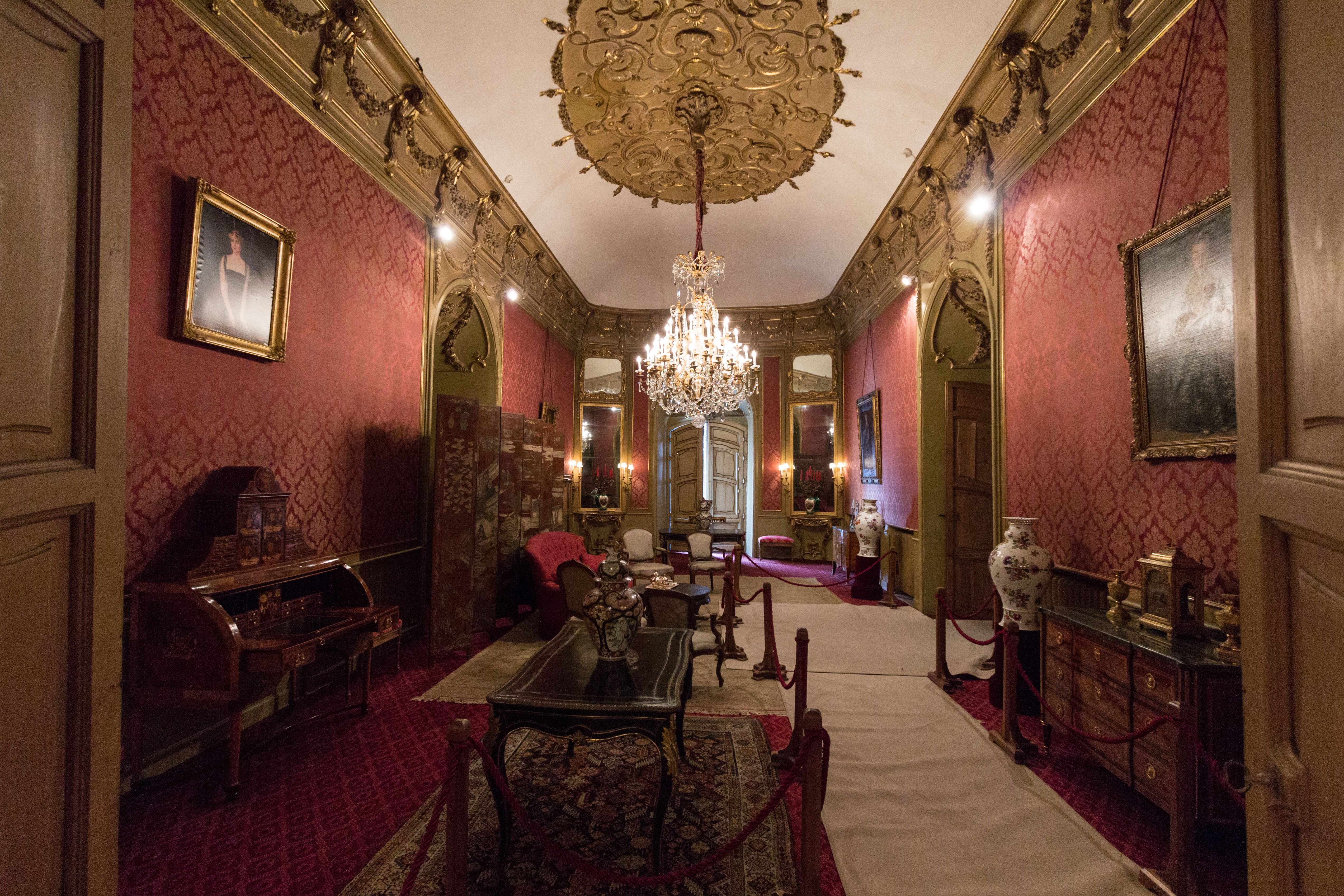 Córdoba, Spain.